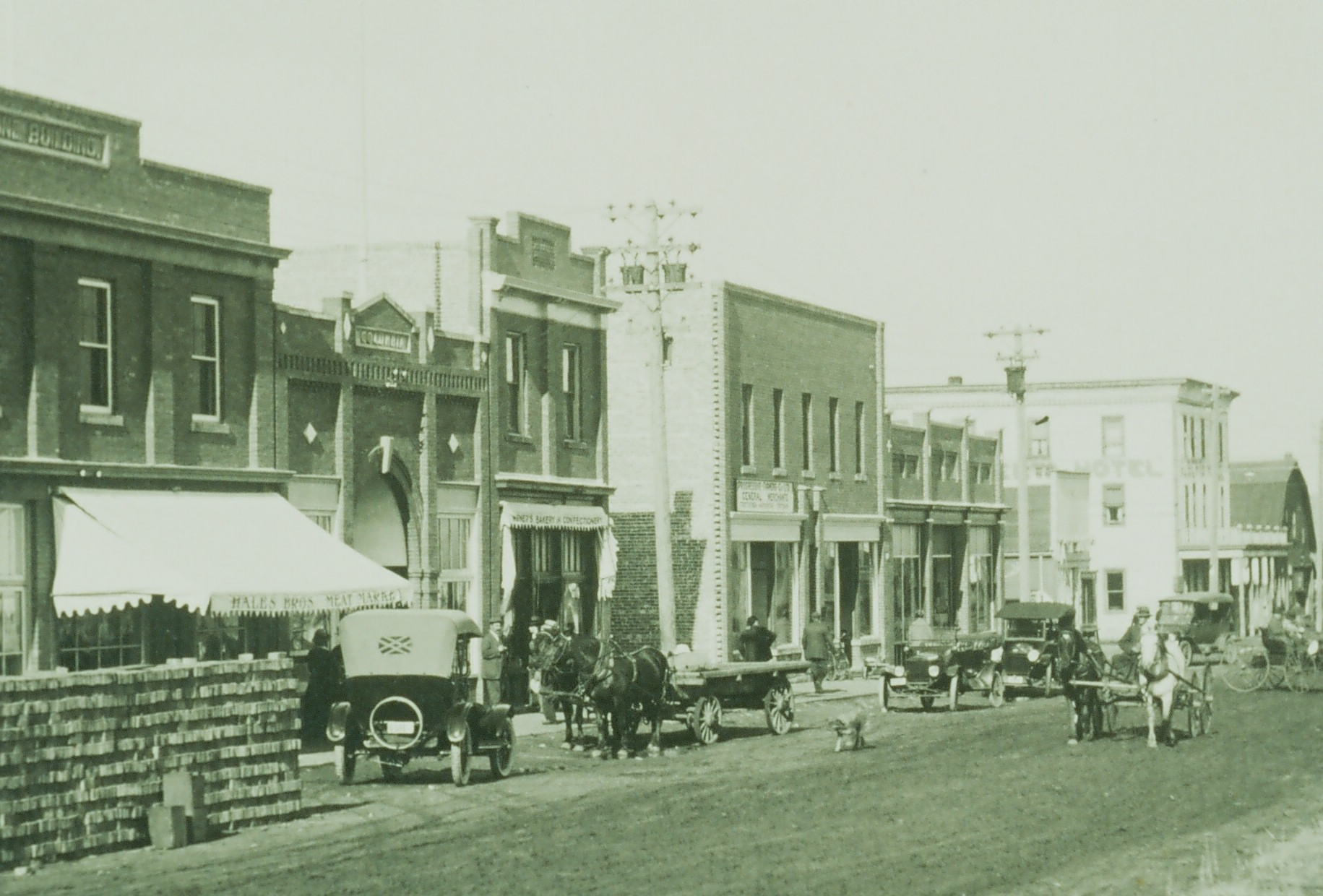 Vermilion, Alberta - 49 Avenue looking northeast